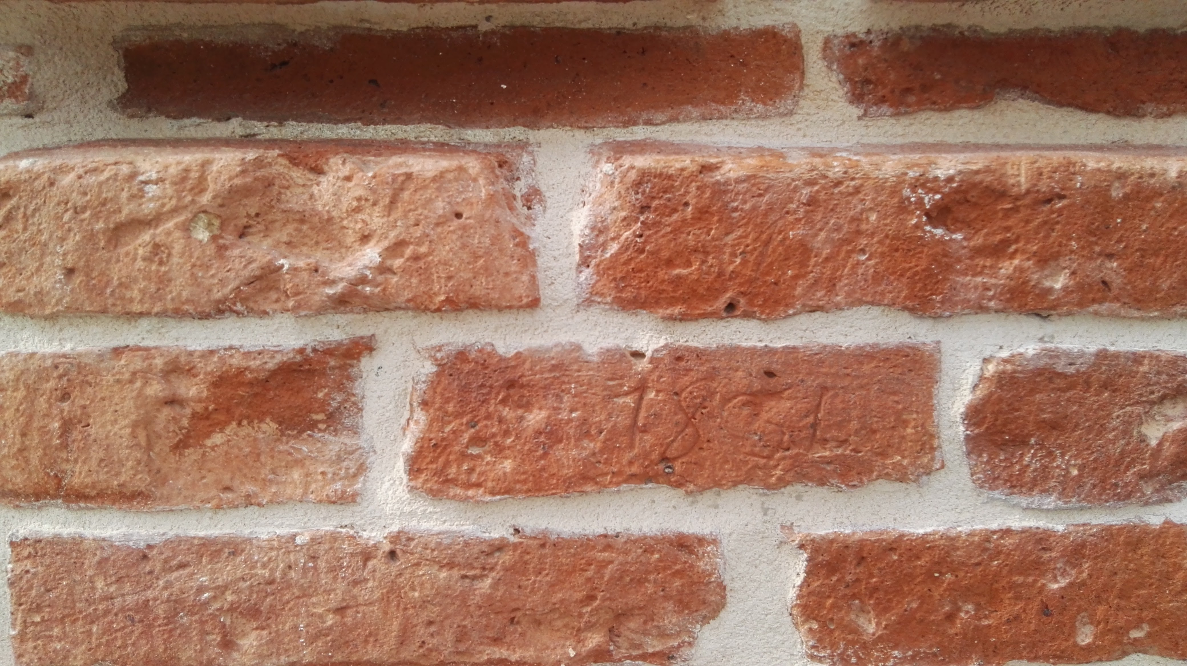 Mattone posto nelle prime file alla base della torre campanaria della Chiesa di Sant'ambrogio di Grion con incisa la data corrispondente ad una delle fasi della costruzione della stessa.